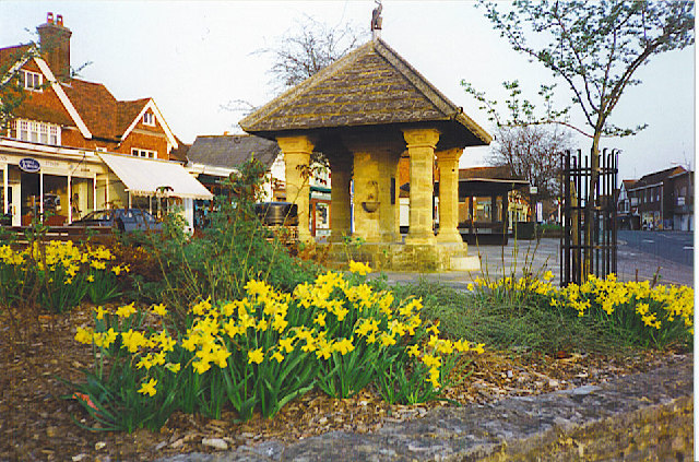 Cranleigh High Street. Cranleigh is reputedly the largest village in England.